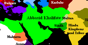 Cropped version of Image:World 820(1).png by User:Electionworld (original uploader to was Briangotts)